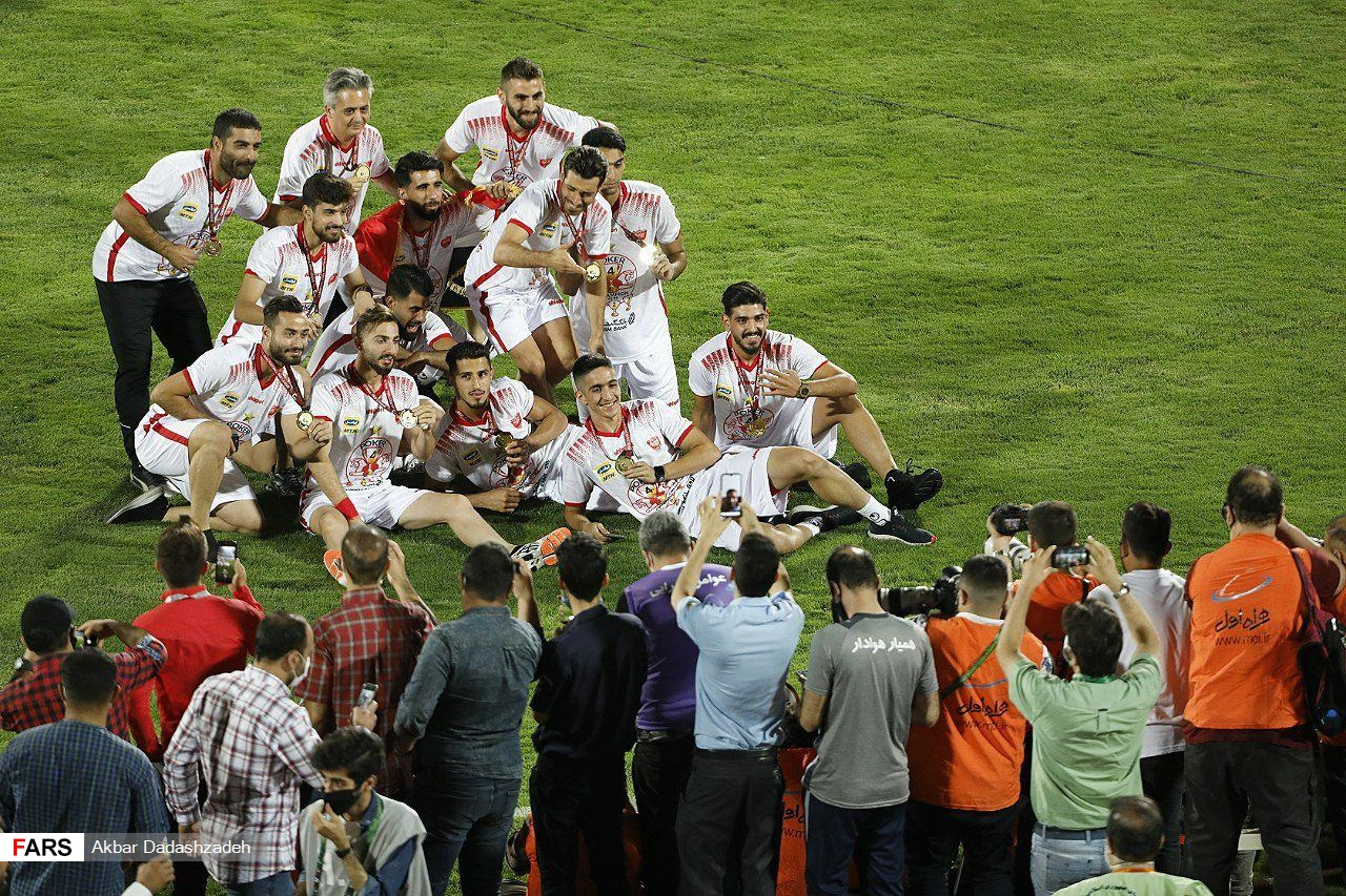 Persepolis F.C. celebrating after 2019–20 Persian Gulf Pro League trophy.